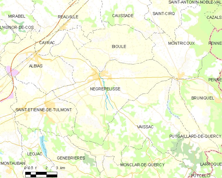 Map of French municipality Nègrepelisse